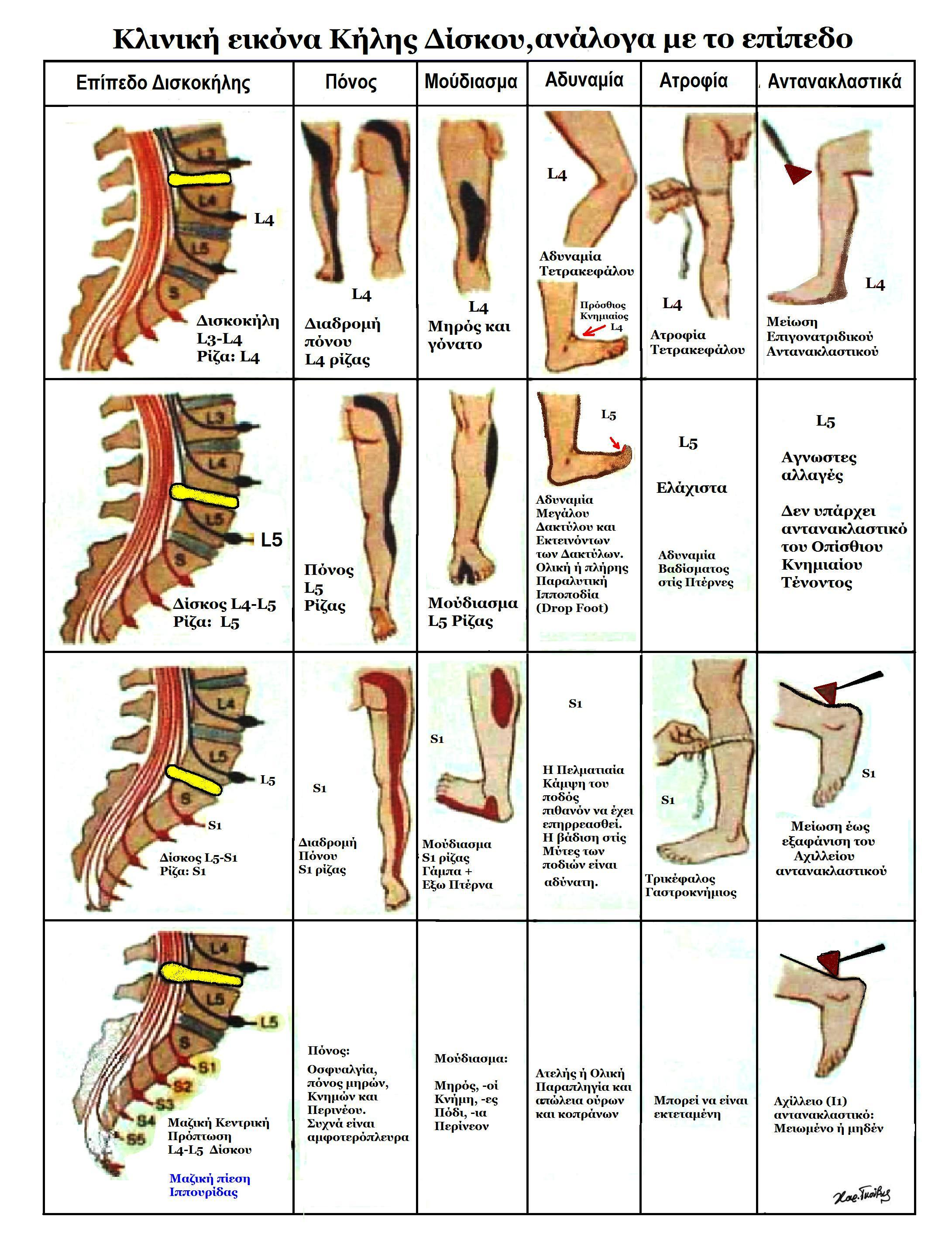 Spinal disc herniation levels